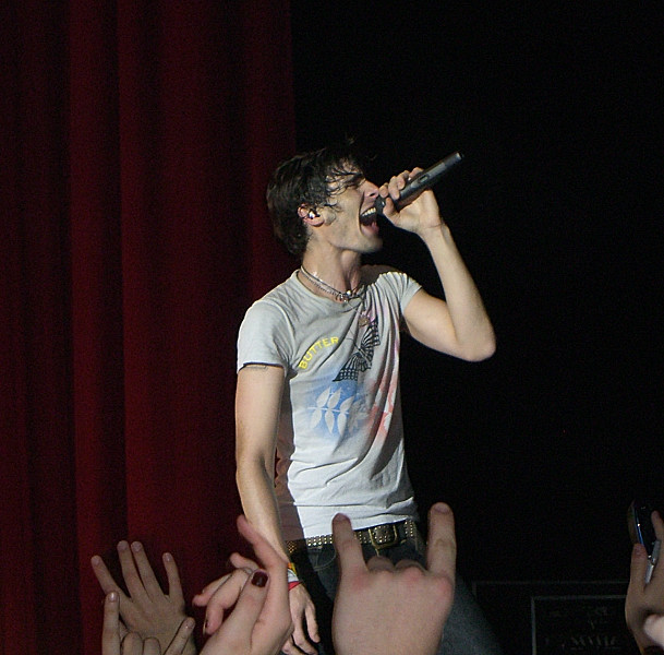 The lead singer of The All-American Rejects at WaMu Theater on December 26, 2006